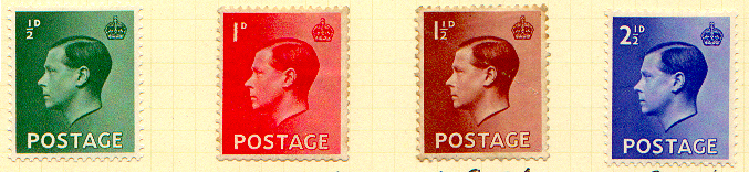 GB Edward VIII Postage Stamps Scanned from personal collection Jeff Knaggs 13:21, 24 Nov 2004 (UTC)